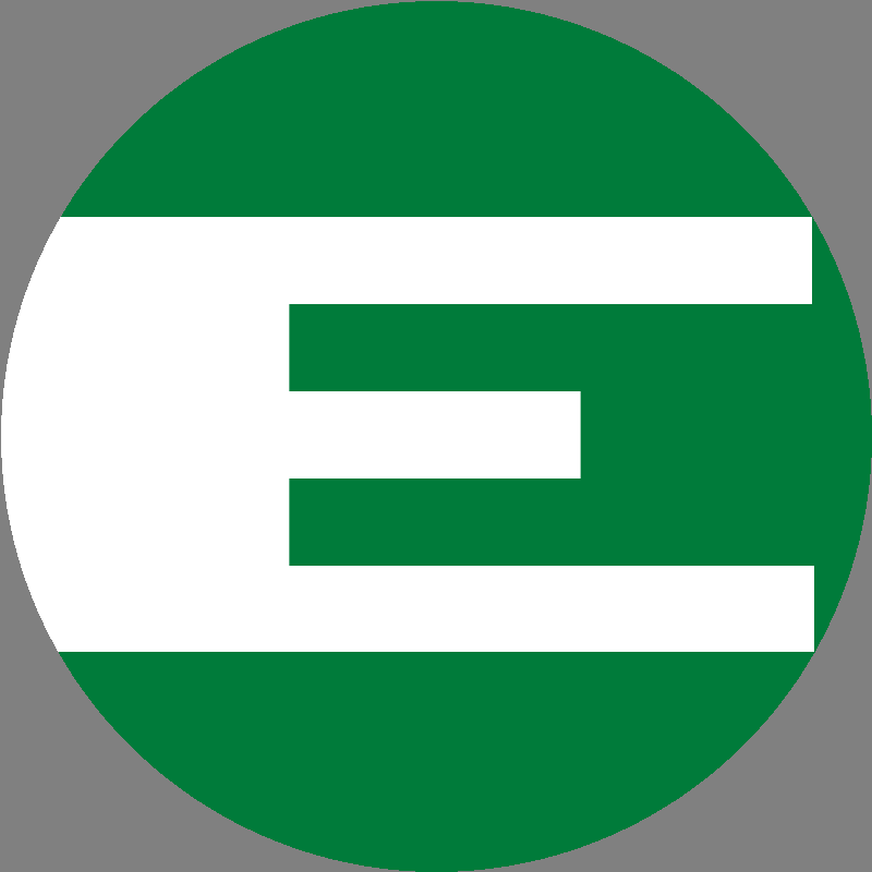 European Movement flag, version for cars used from 1984 til Schengen Agreement